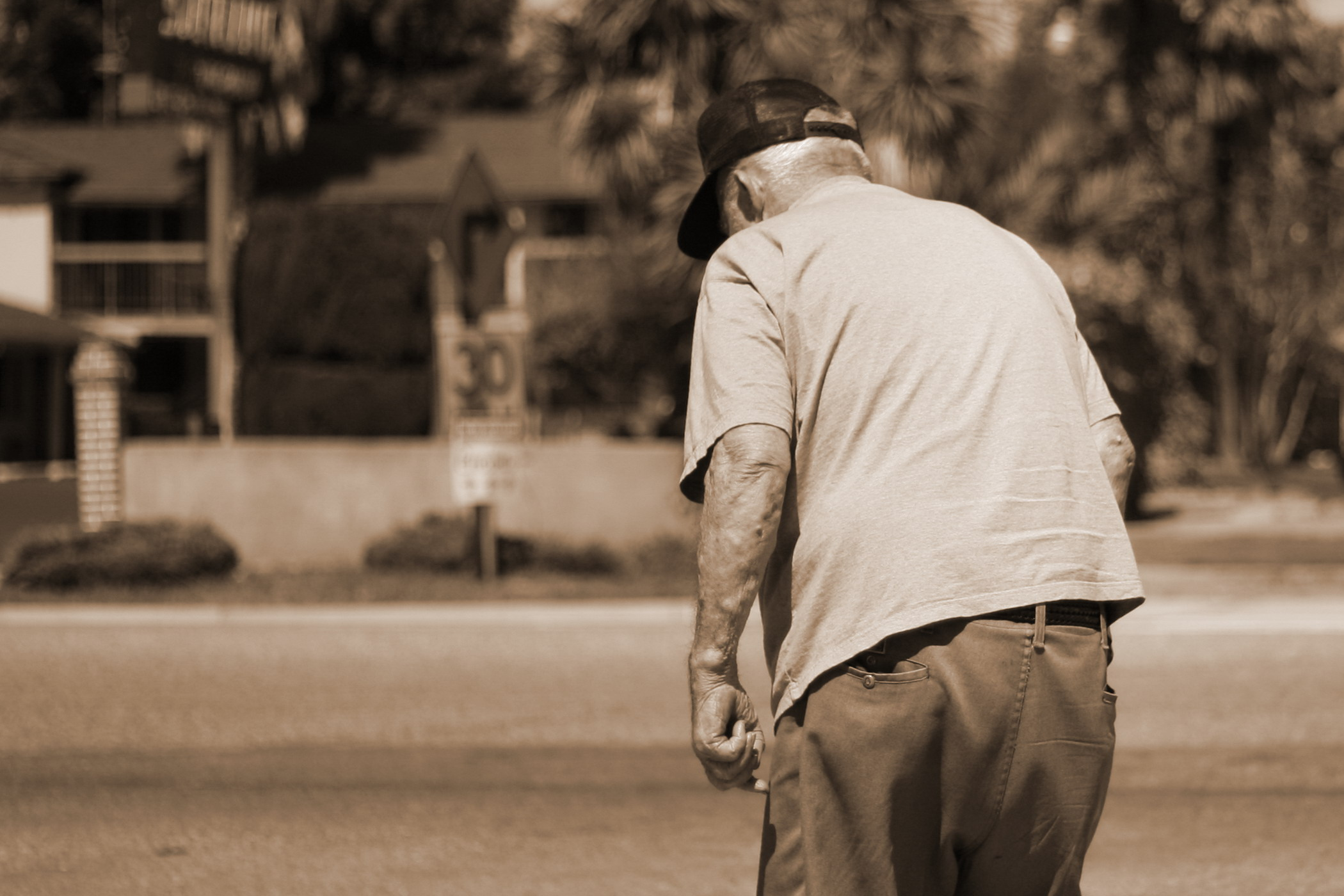 Took this right outside Mission City Coffee Roasting co., on Alameda in San Jose, on a Spring Saturday morning. This man looked in a lot of pain... he just sat down for a few minutes, then started walking on his way again.